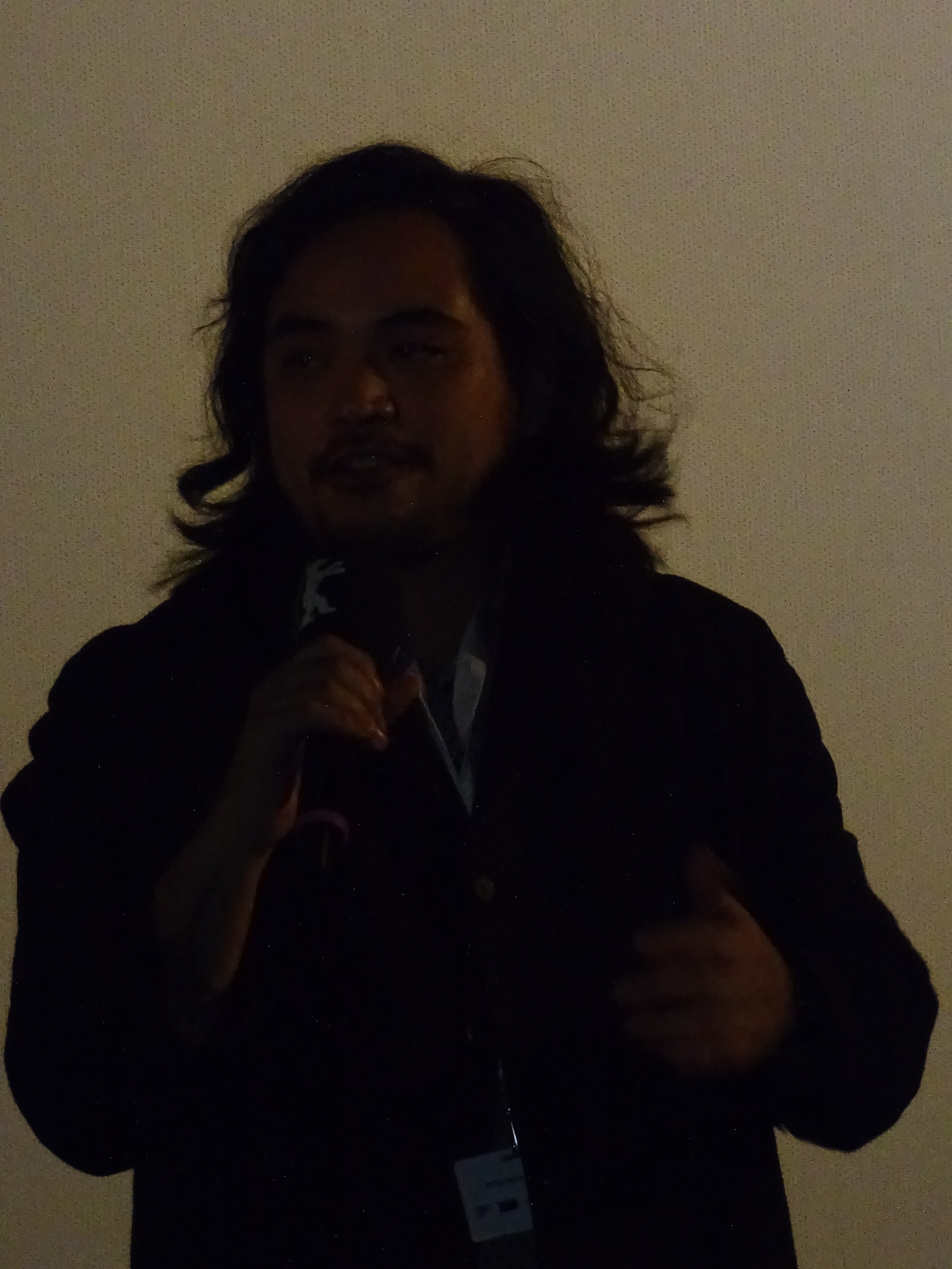 Film director Rafael Manuel at a Q&A at Berlinale in February 2020 in Berlin